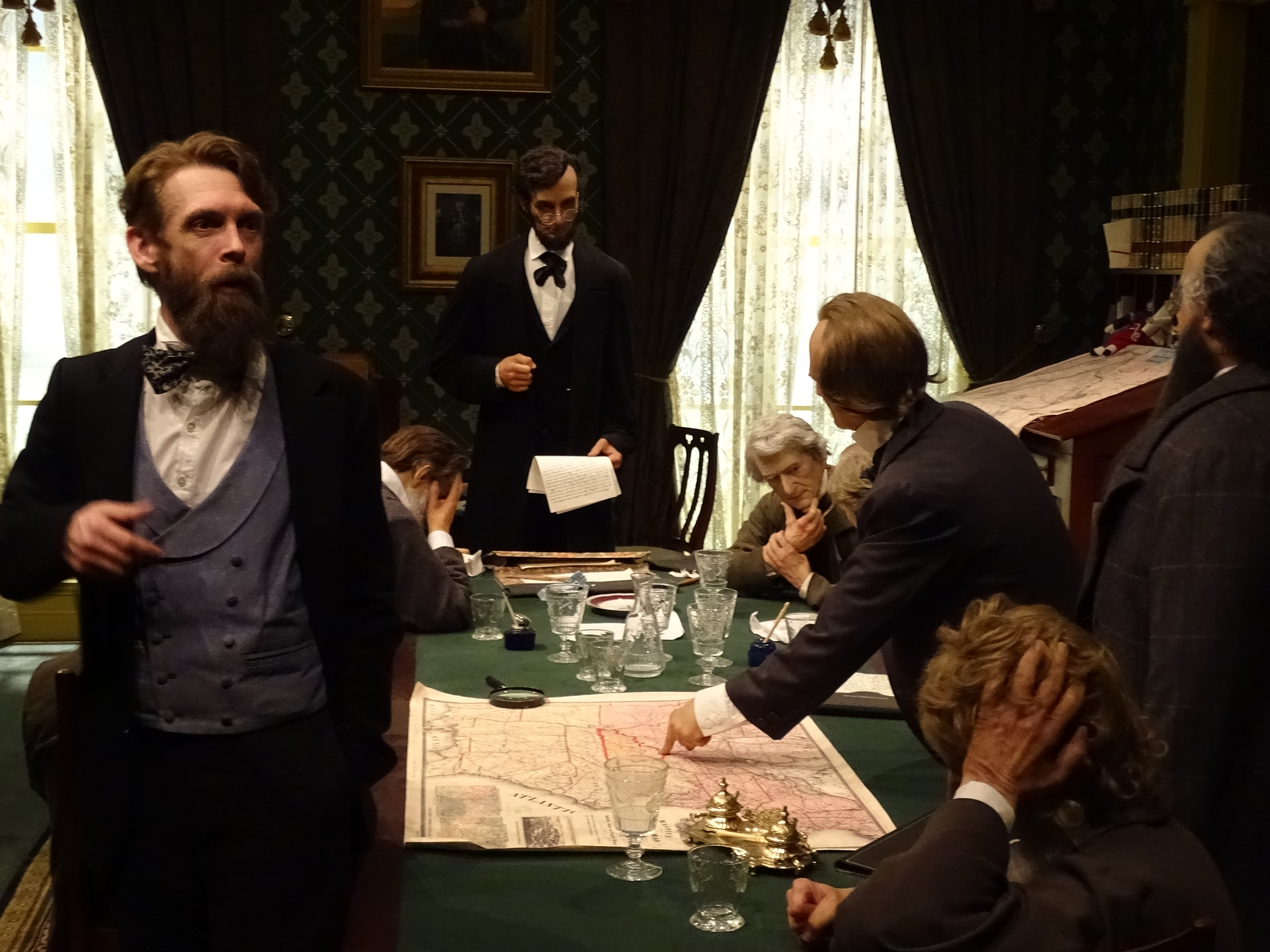 Actor with Diorama Figures in Replica White House - Abraham Lincoln Presidential Library & Museum - Springfield - Illinois - USA